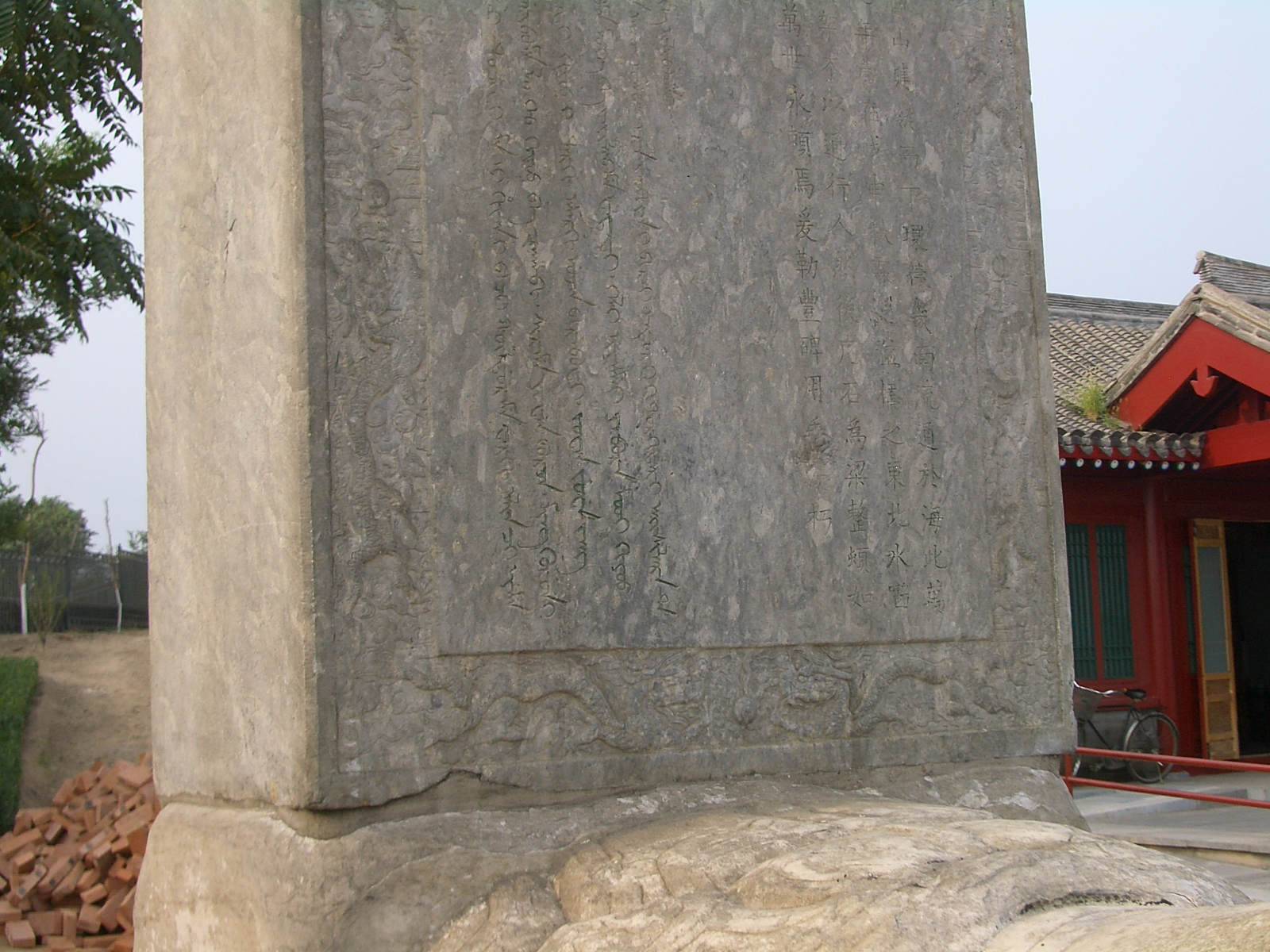 The stele commemorating Kangxi Emperor's rebuilding of the eastern part of the Lugou Bridge after it was damaged by flood. It stands on top of a bixi turtle, next to Qianlong's "Morning moon over the Lugou" stele, and is noticeably eroded. The sign by the stele says that it was put up in the 8th year of the Kangxi era (i.e. circa 1669), commemorating the rebuilding that took place in the 7th year of Kangxi era (i.e., ca. 1668). However, most sources only mention Kangxi's rebuilding that took plpace in 1698. Notice both Chinese (right) and Manchu (left) writing on the stele.